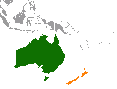 For W:Australia-New Zealand relations article.